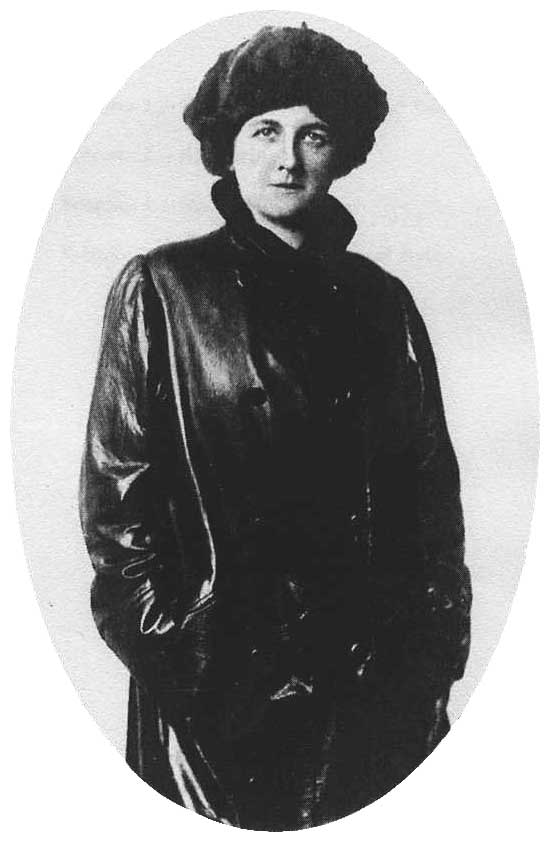 From Marie Czaplicka, My Siberian Year (London: Mills & Boon, 1916), frontispiece.See also: Andrei A. Znamenski, The Beauty of the Primitive (2007), p. 68. Author confirms image is in the public domain or out of copyright:[1]